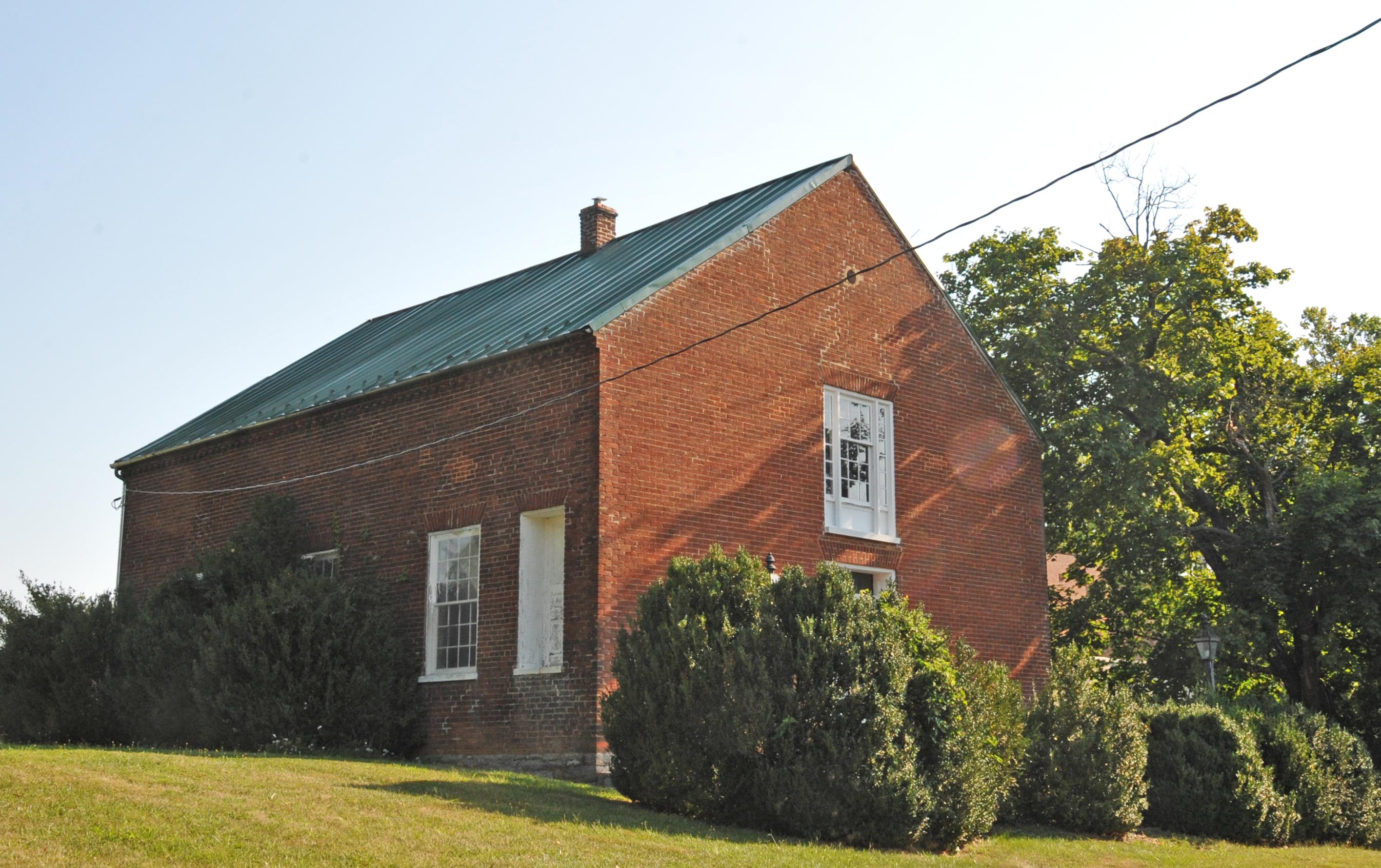 AKA CHRIST EPISCOPAL CHURCH - OLDEST EPISCOPAL CHURCH CONGREGATION IN WEST VIRGINIA. PRESENT CHURCH WAS BUILT IN 1851. MORGAN MORGAN, ONE OF WEST VIRGINIA’S EARLIEST SETTLERS IS BURIED HERE ALONG WITH HIS DESCENDENTS